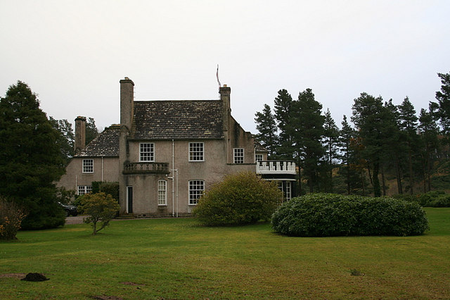 The West Wing, Kellas House